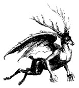 Image of Furfur from Collin de Plancy's Dictionnaire Infernal (1863)